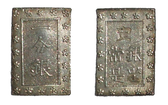 Ansei-1bugin